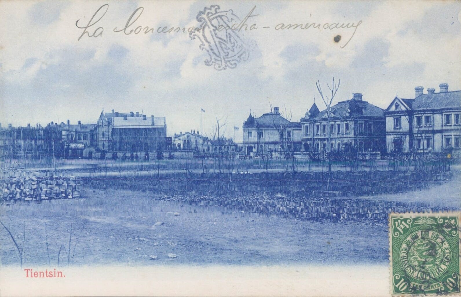 Postcard issued c. 1900 showing what was informally known as the American concession of Tianjin (Tientsin). The small area was formally absorbed into the British concession in 1902.